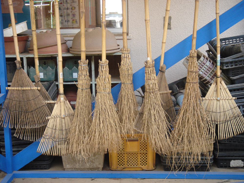 Brooms from Japan